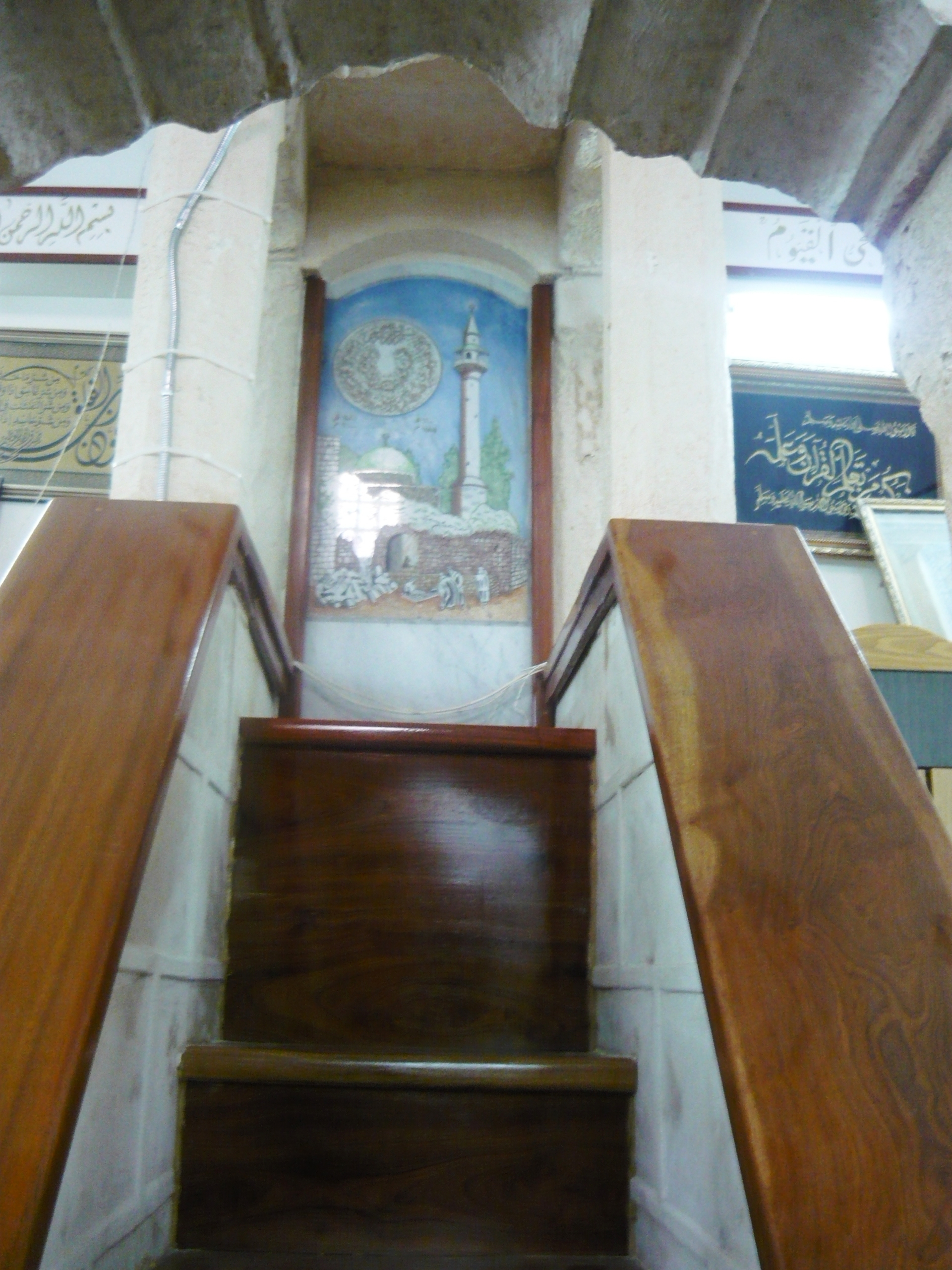 decoration in the Minbar in the White Mosque in Nazareth